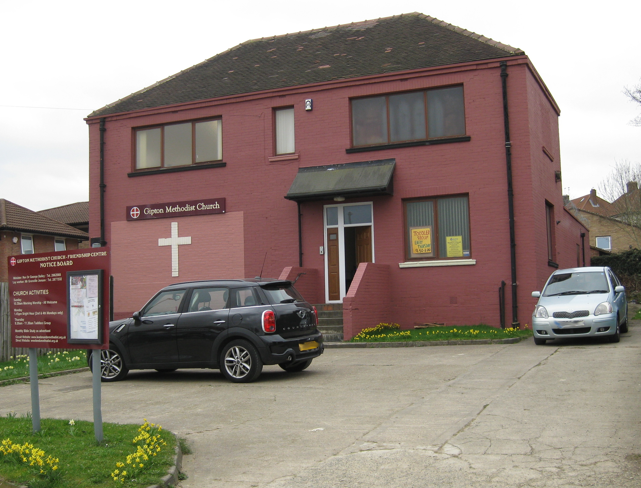 Gipton Methodist Church, Oak Tree Place, Leeds LS9 6SX. Red painted two-storey brick building with tile roof looking like an adapted house, which it is, a former Manse. One black and one silver car in the car park in front. Sign and noticeboard to left.